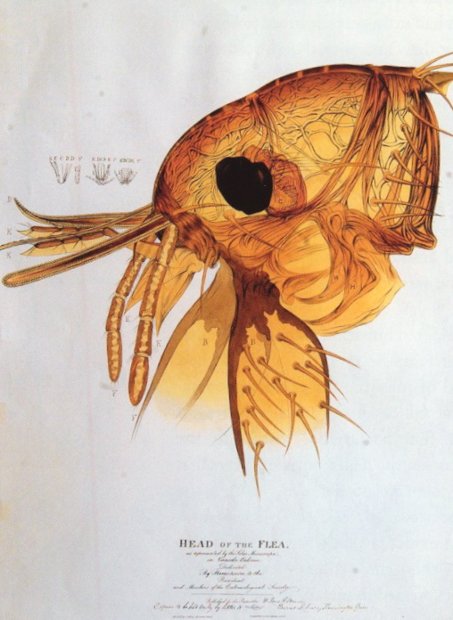 An example of micrographic illustration, the caption was "Lens Aldous, Head of the Flea, c. 1838 Hand-colored lithograph, poster for Entomological Society of London Hope Library, Oxford University Museum of Natural History"